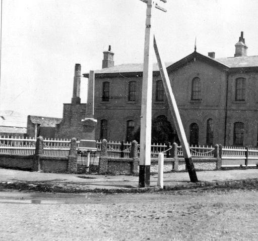 Premises of the former Police Station, Court House, Telegraph Station and Customs House at the corner of Standish Street and The Parade in Port MacDonnell, South Australia.